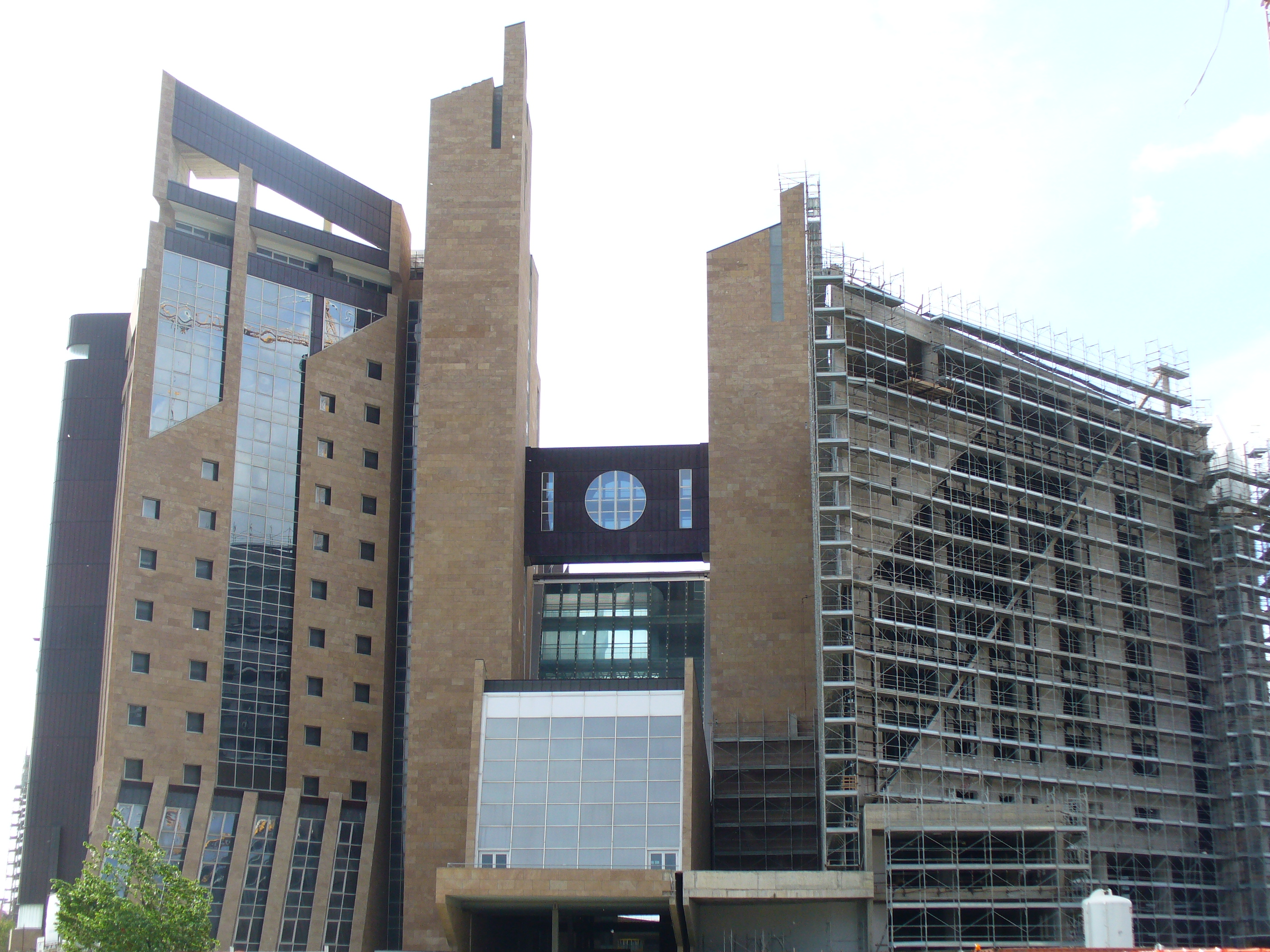 Palazzo di Giustizia (Florence)